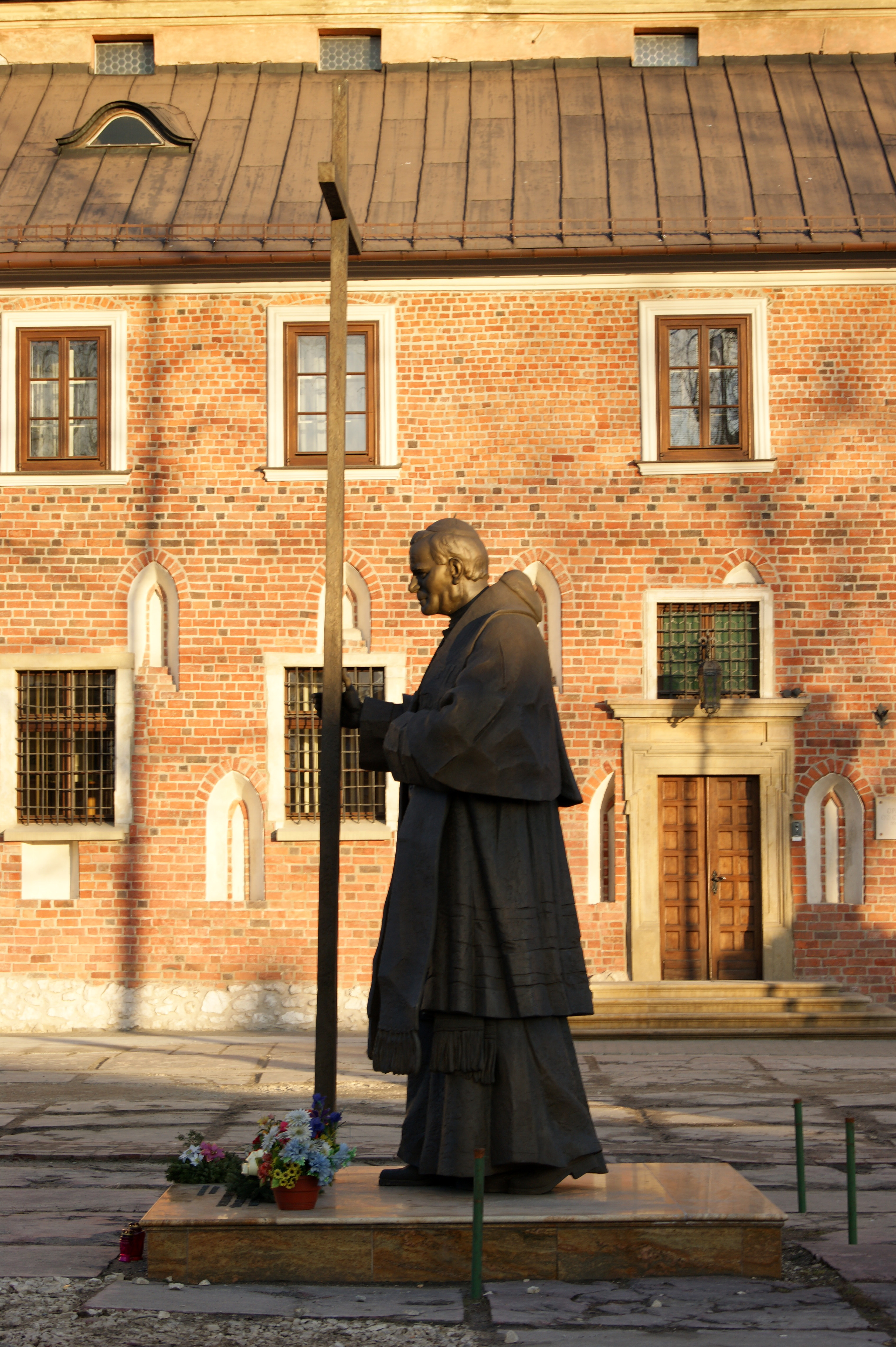 Pope John Paul II monument, Cistercian abbey, Klasztorna street, Mogila,Nowa Huta,Krakow,Poland